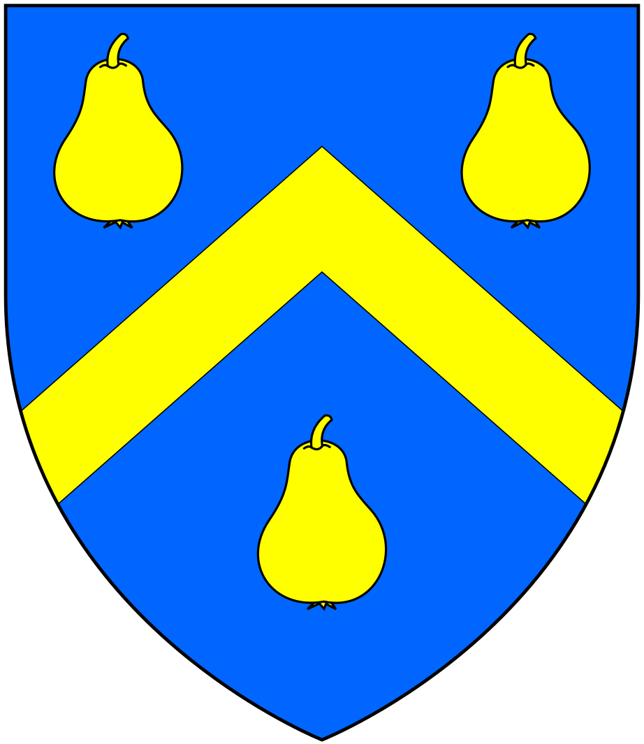 Arms of Calmady family of Calmady (a tenement within the manor of Penfound, in the parish of Poundstock) Cornwall: Azure, a chevron between three pears or (Vivian, Lt.Col. J.L., (Ed.) The Visitation of the County of Devon: Comprising the Heralds' Visitations of 1531, 1564 & 1620, Exeter, 1895, p.128, pedigree of Calmady). The arms may be seen in Tetcott church impaled by Arscott